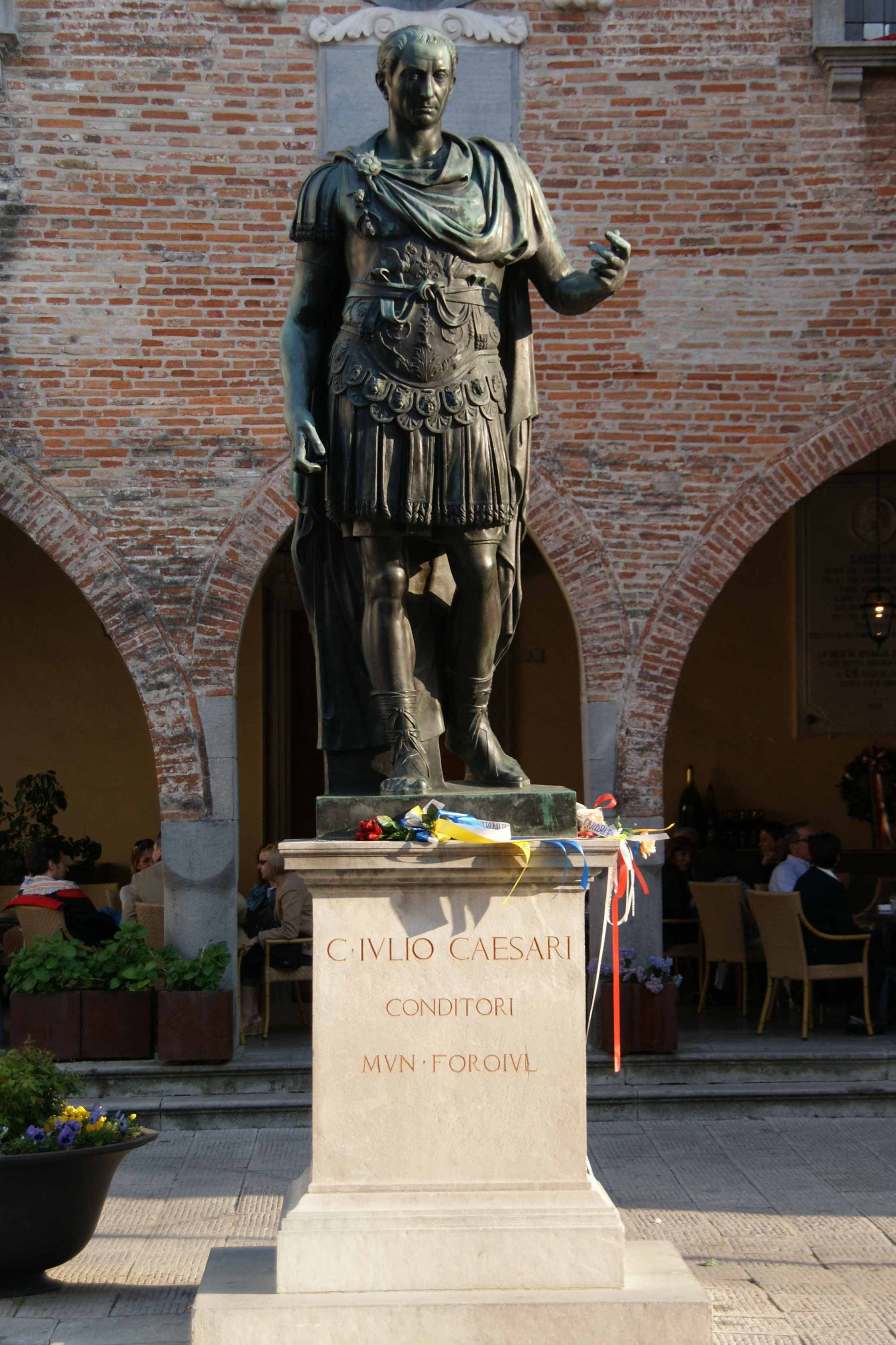 Cividale del Friuli, statue of Julius Caesar in front of the town hall